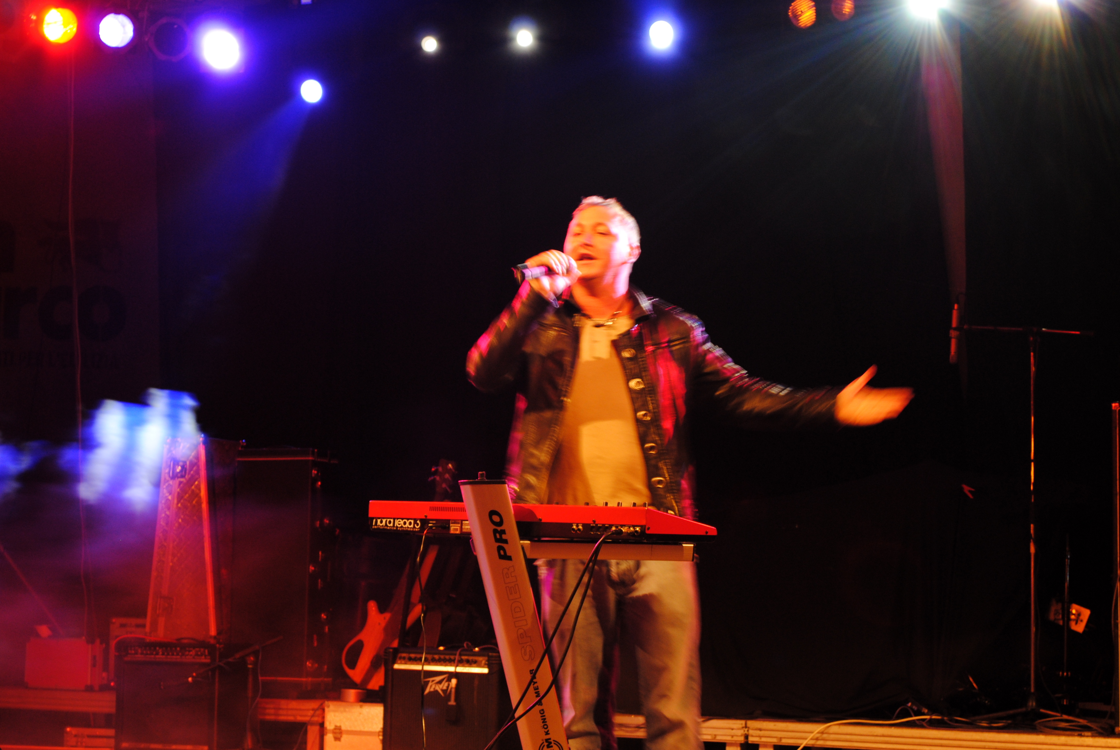 DJ Gino Manzotii from the romanian band DJ Project.